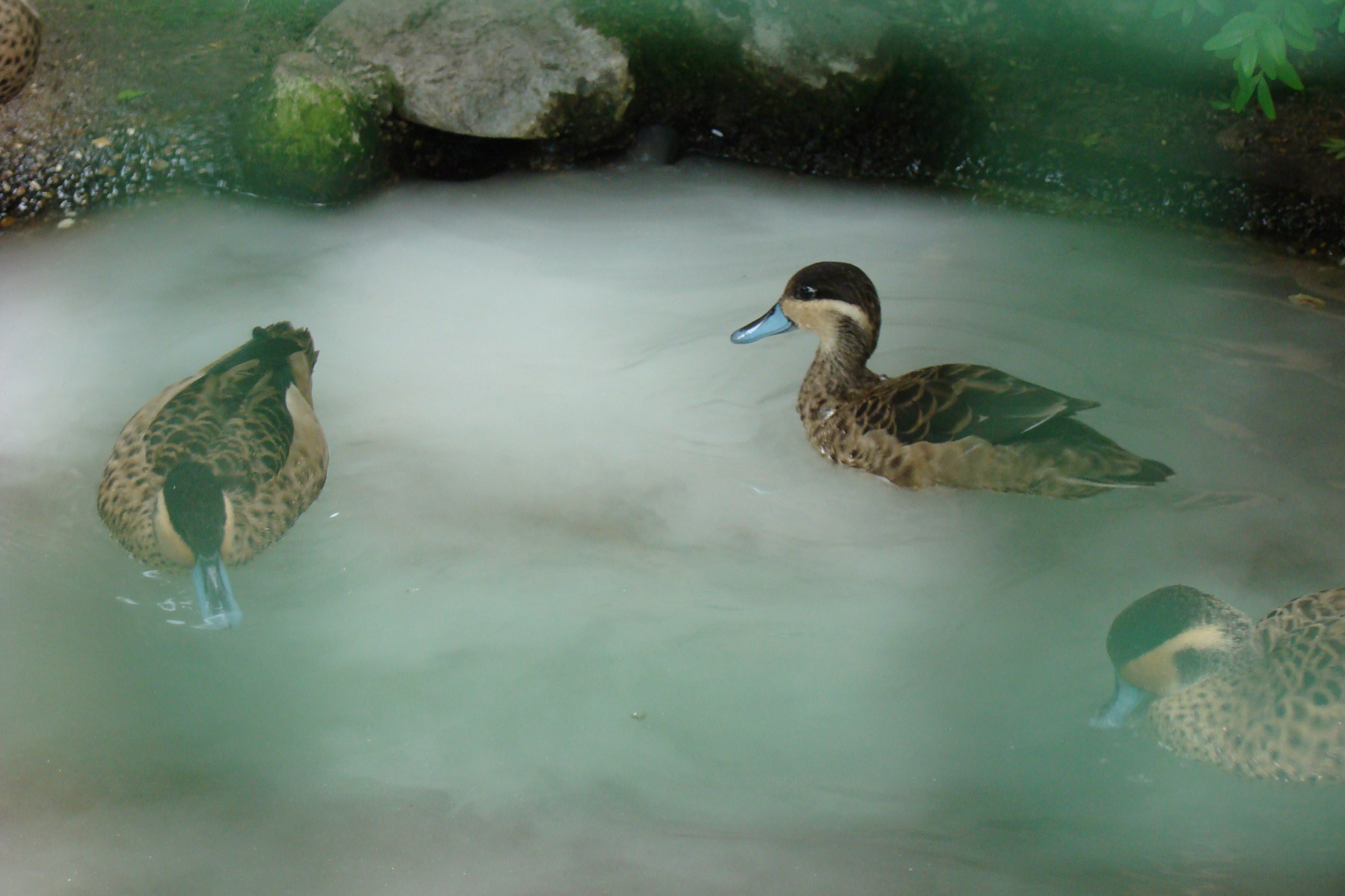 Hottentot teal (Spatula hottentota. Habitat: Southern Africa. Taken by Christfried Naumann at Zoo Berlin, 2008-05-27.